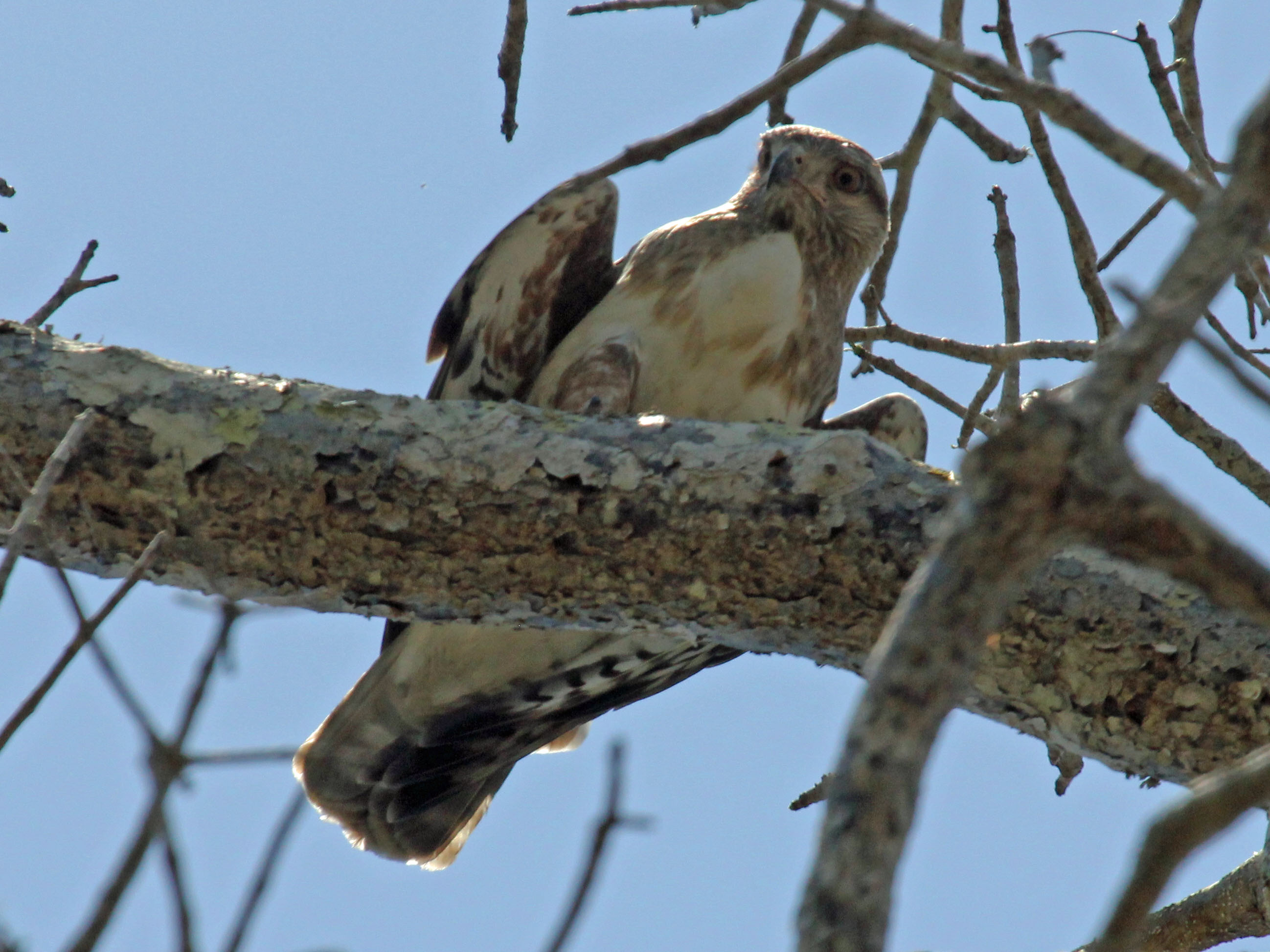 Madagascar Buzzard (Buteo brachypterus) - Kirindy Forest, Madagascar